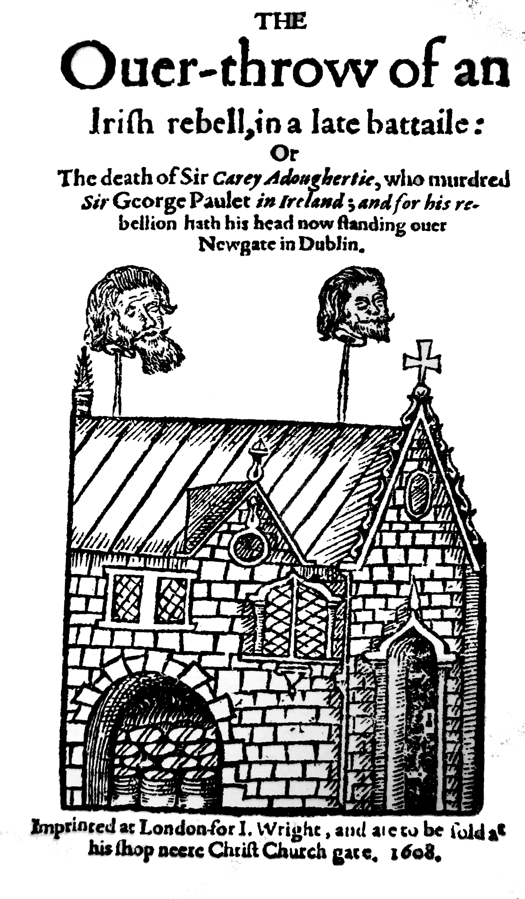 From a London news pamphlet in 1608 entitled "The Overthrow of an Irish Rebell," by ALet~. Ireland, 1608 (after the Nine Years War) and "flight of the earls" Gaelic Lord Cahir ODoherty of Donegal rebelled against the British colonizers. Angered by the confiscation of his lands for the Plantation of Ulster, and insults by local governors, Sir Cahir and his allies sacked and burned the historic town of Derry. O'Doherty's foster-father Felim Riabhach McDavitt (Mac Daibhéid) killed the Governor, Sir George Paulet, with whom he and Cahir had repeatedly quarreled. O'Doherty was killed, and his forces routed near Kilmacrennan. The severed heads of O'Doherty (right) and McDavitt (left) were displayed on Newgate in Dublin for some time afterwards.